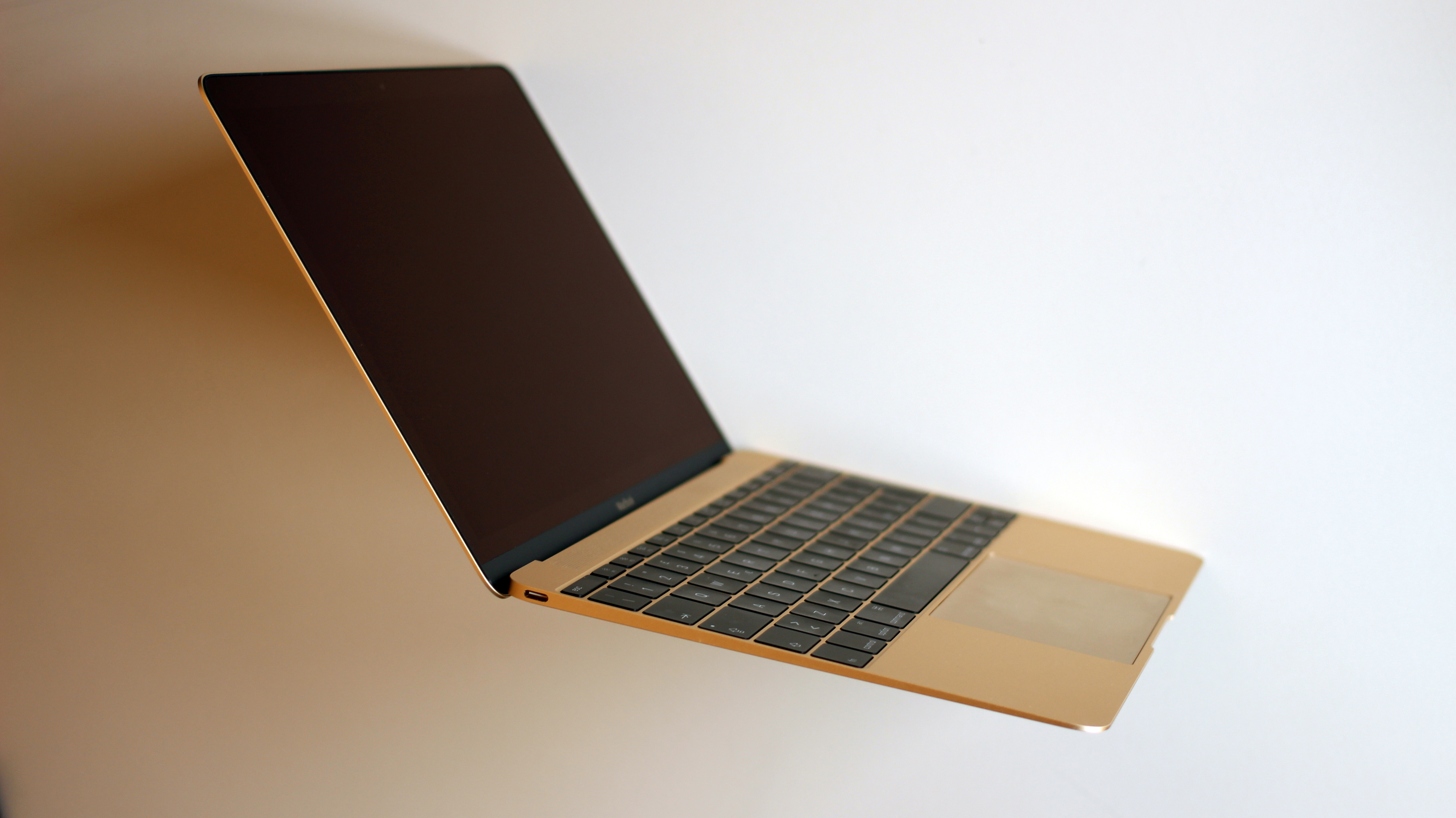 Photo of a MacBook with Retina Display (2015 model)